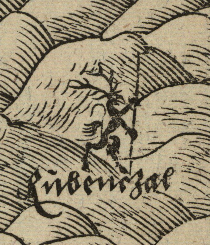 The first known depiction of Rübezahl (Rübenczal) on Martin Helwig's map of Silesia (1776)